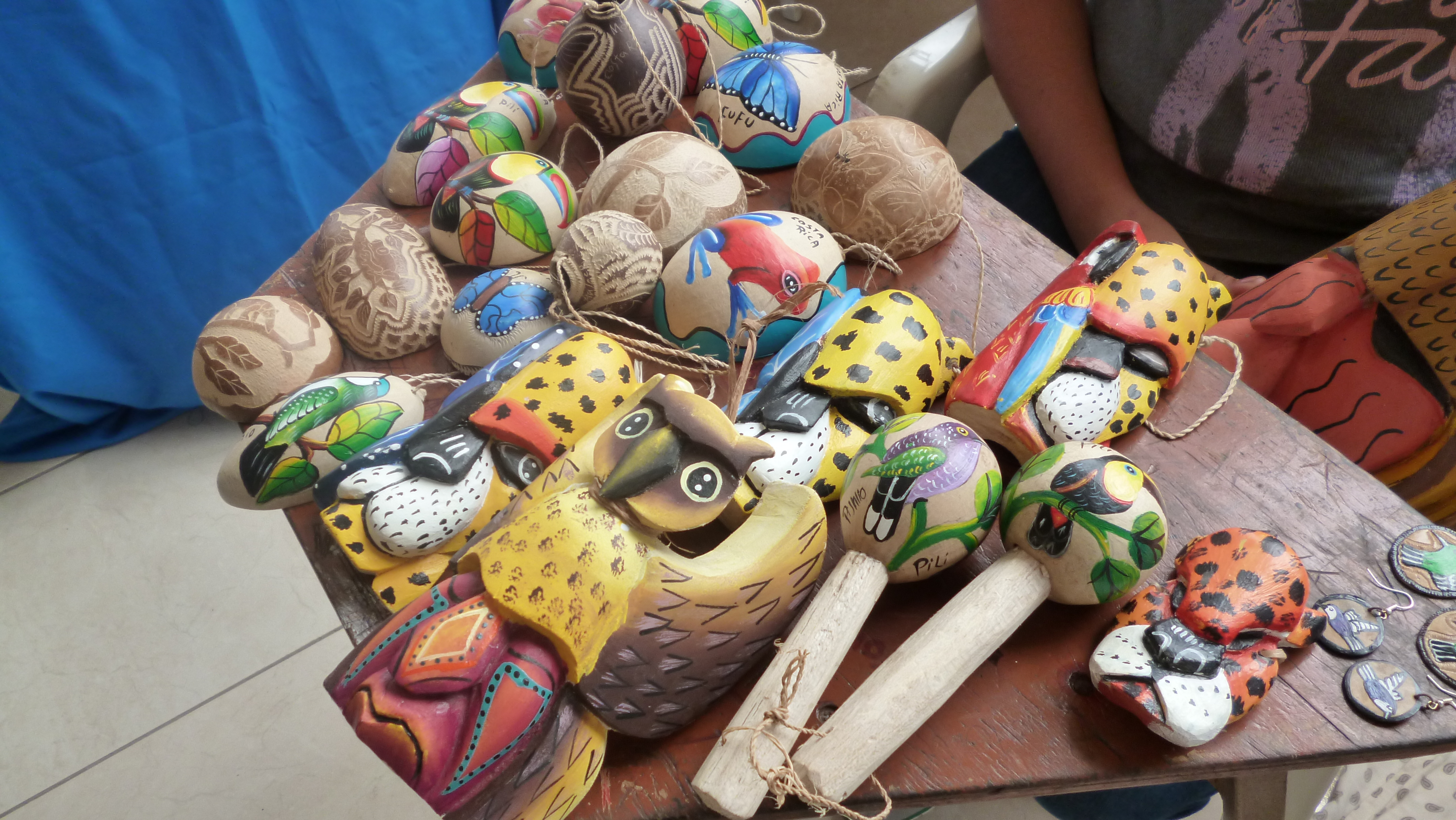 Maleku masks at Ciudad Quesada, Costa Rica.